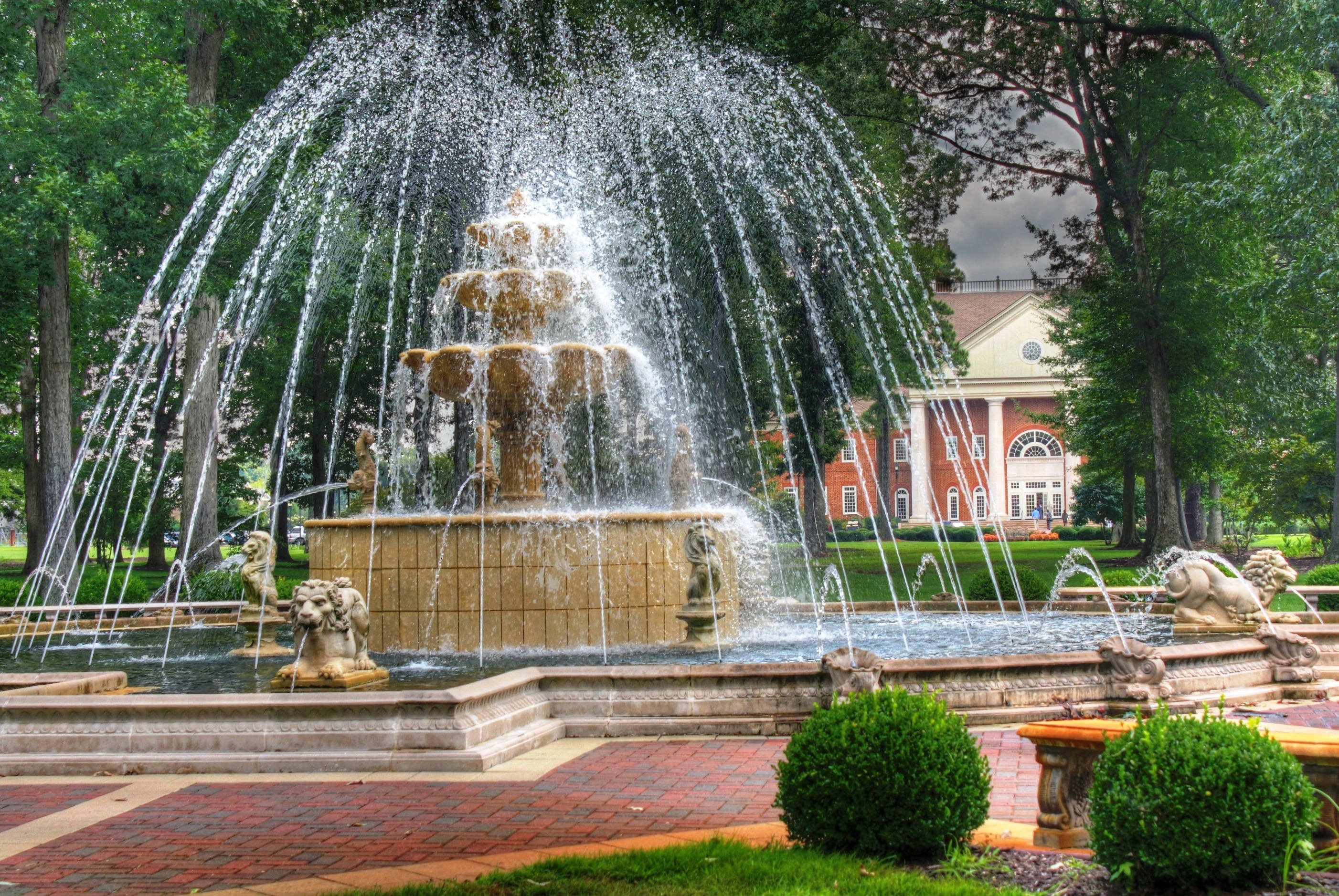 The Regent University Fountain with the Communications and Arts building in the background.